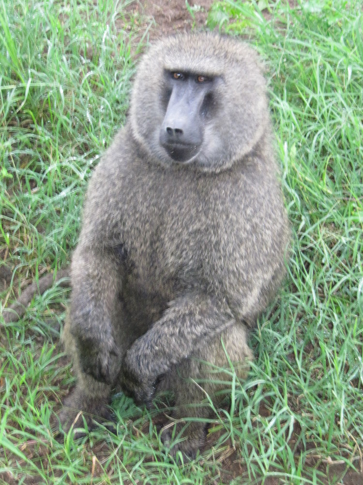 Olive Baboon in Lake Nakuru National Park, Kenya